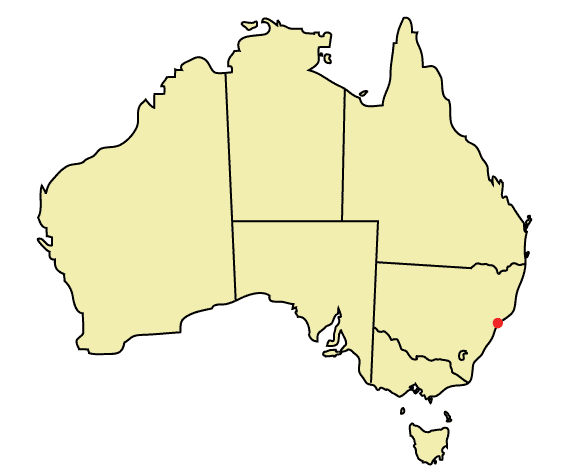 Map of Australia locating Newcastle.